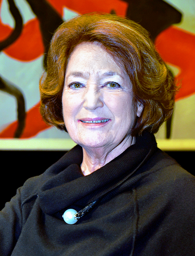 Portrait of Edda Moser (German soprano and university professor) - Teatro Nuovo (New Theater) - Spoleto 2016